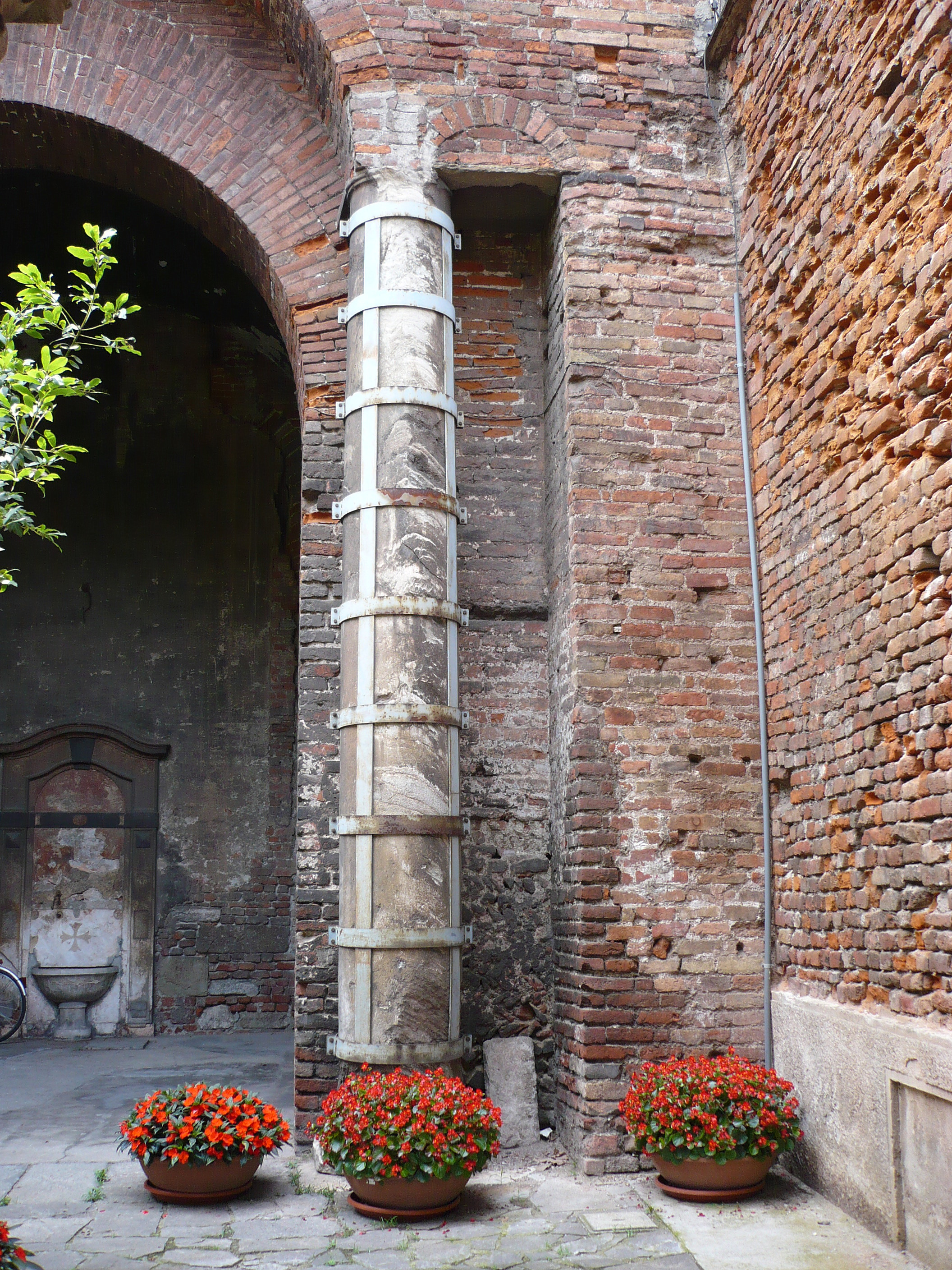 Ancient Roman column of the circus of Milan.